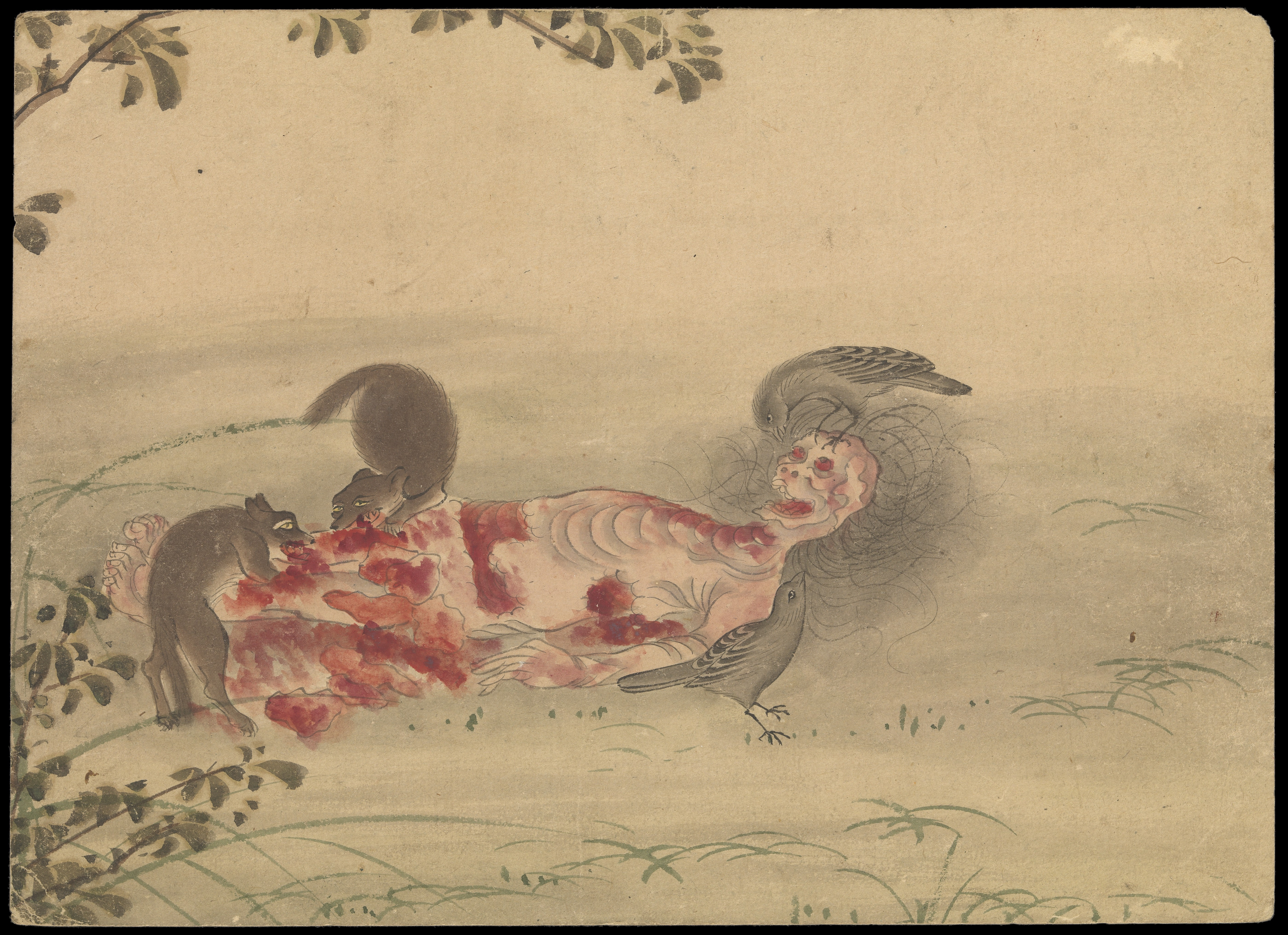 Kusozu: the death of a noble lady and the decay of her body. Sixth in a series of 9 watercolour paintings. The putrefying body is now carrion for scavenging birds and small animals. Iconographic Collections